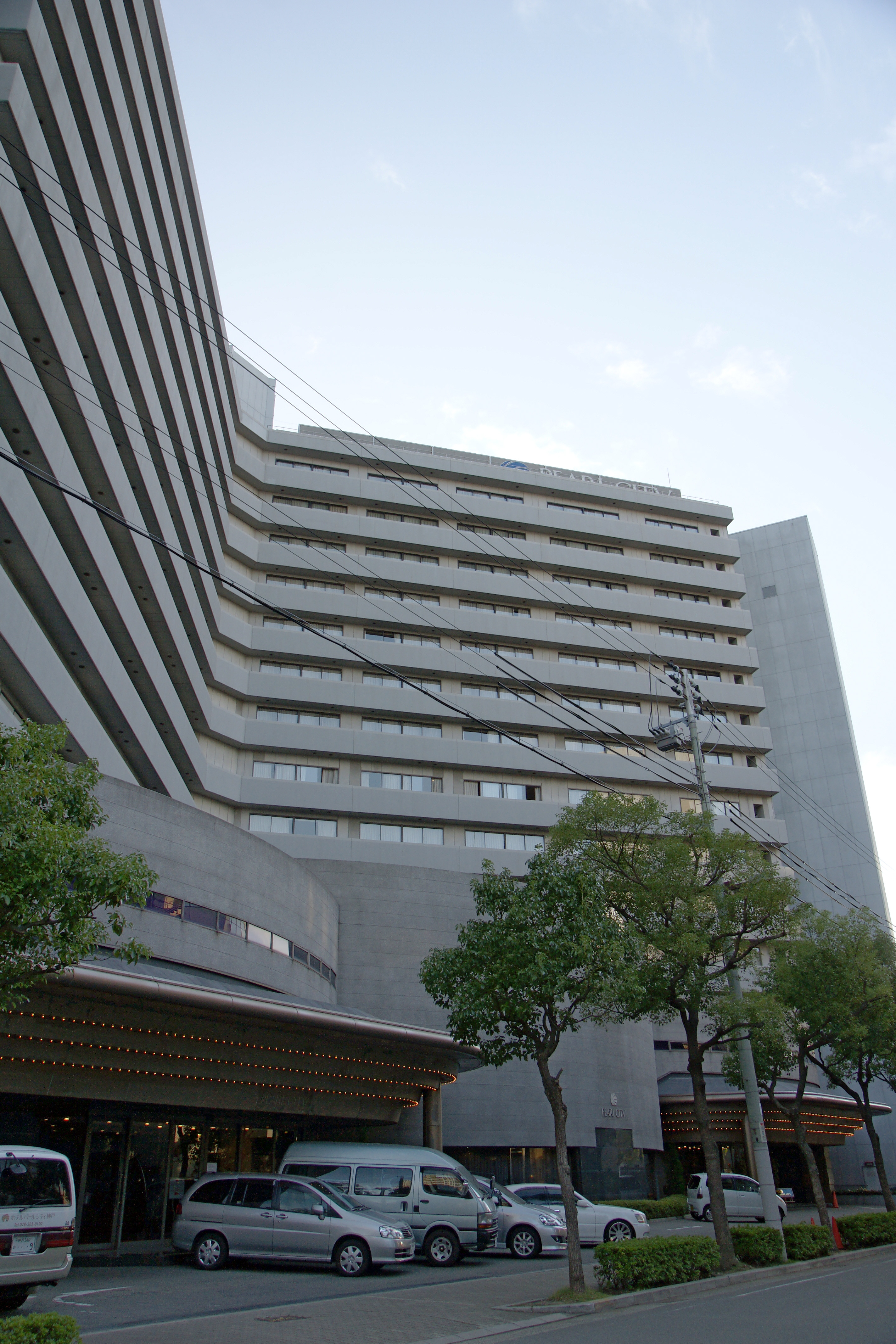 Hotel Pearl City Kobe (Hotel Management International Co.,Ltd. headquarters), Kobe, Hyogo prefecture, Japan